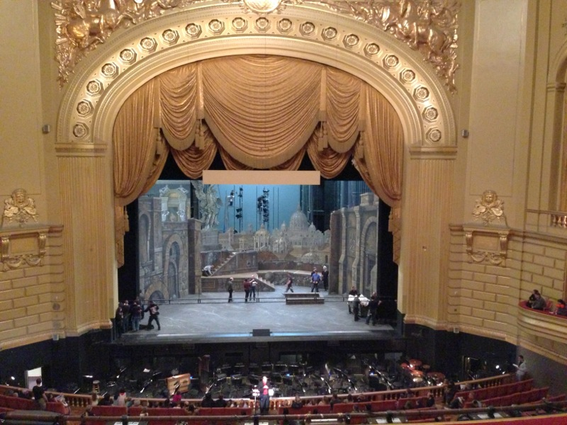 Setting up the stage for Puccini's Tosca at the San Francisco Opera.